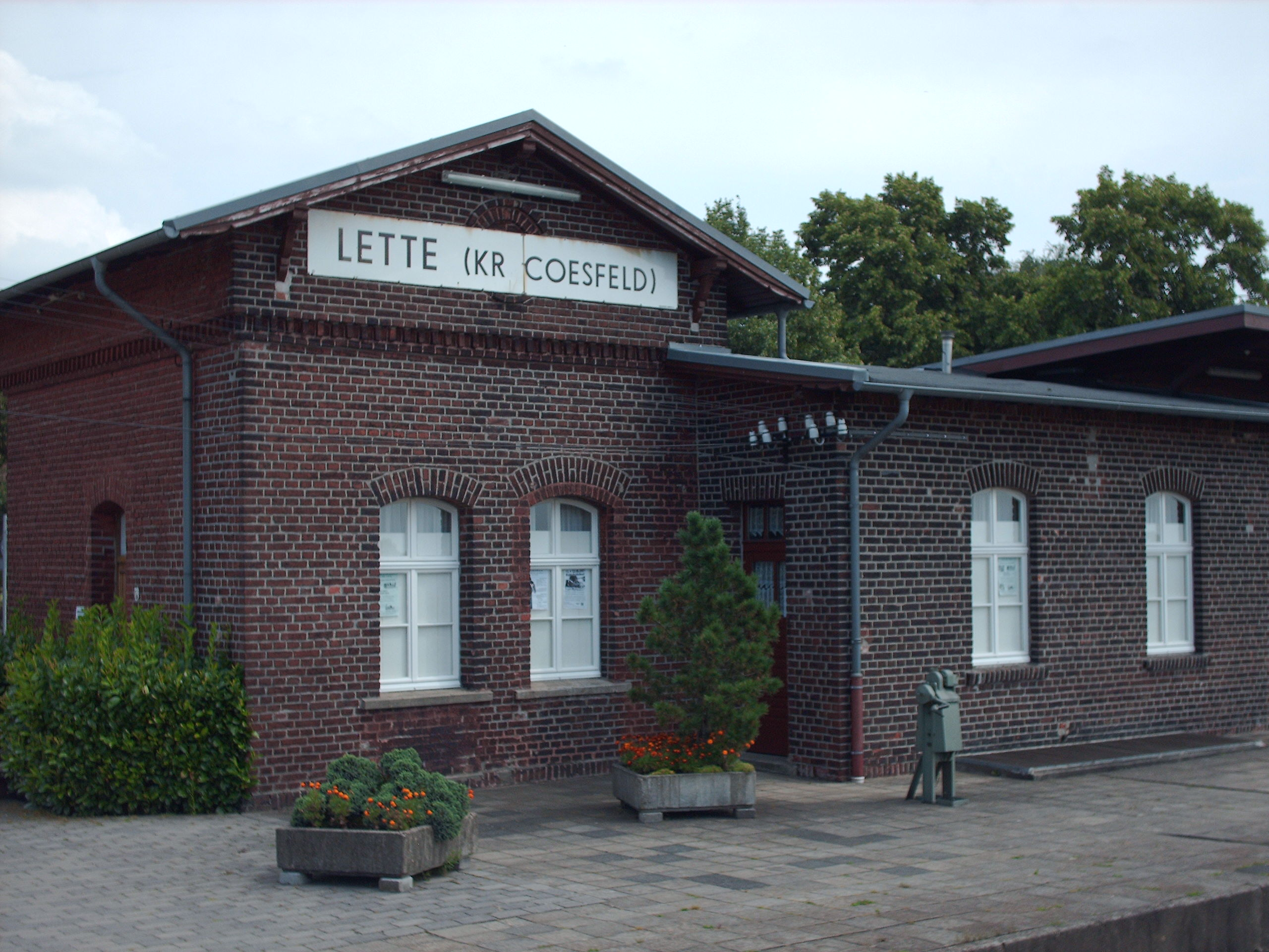 Lette (Kr Coesfeld) station, Coesfeld, Germany check usage